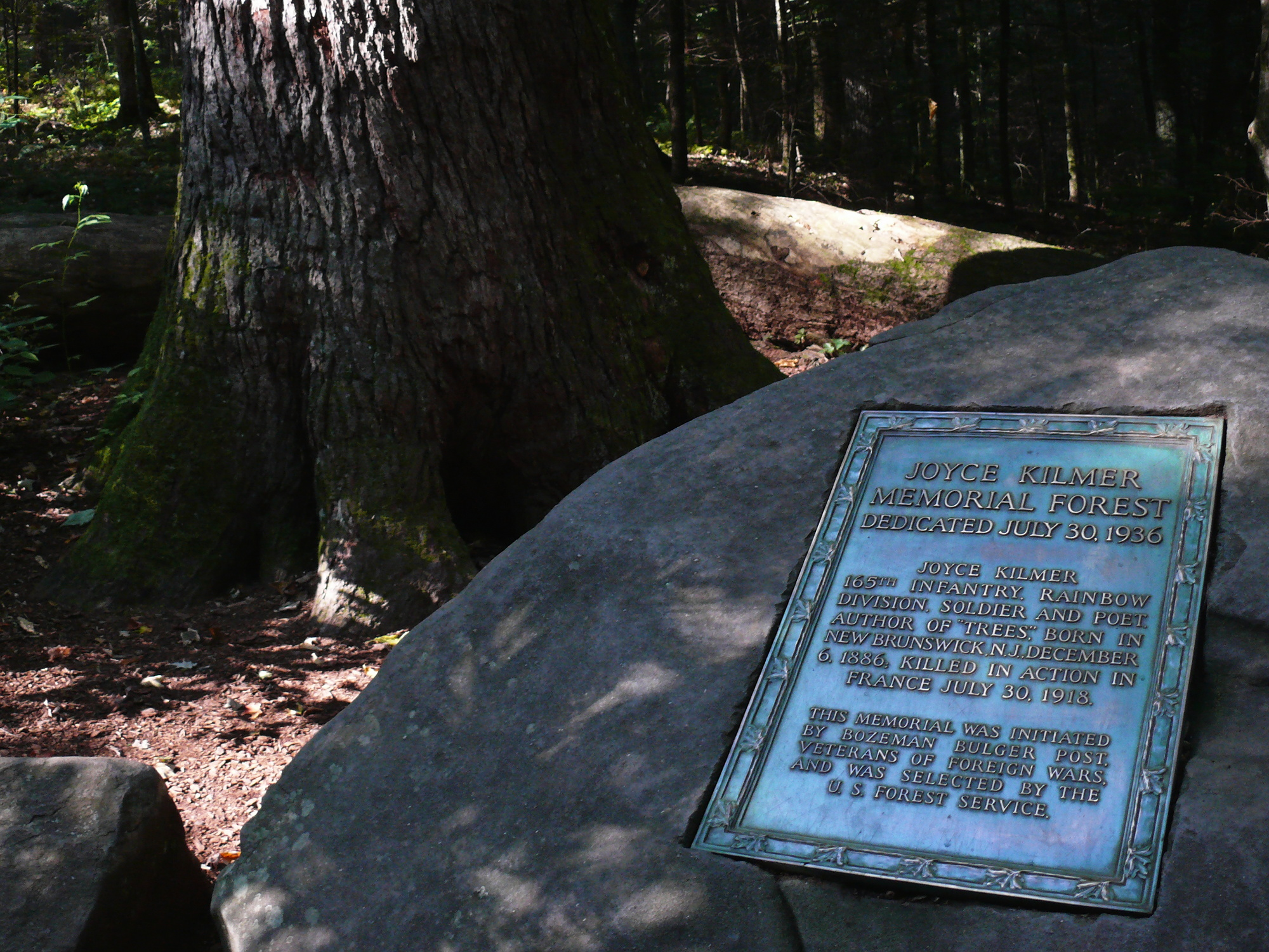 This memorial to American poet Joyce Kilmer stands near the center of Joyce Kilmer Memorial Forest. Part of the Nantahala National Forest and the Slickrock Wilderness, the 3840-acre memorial area is one of the few remaining examples of old growth hardwood forest in the eastern United States. The forest is home to many poplar, beech, sycamore and oak trees, some of which exceed 20 feet in circumference, and are thought to be over 400 years old.Photo taken with a Panasonic Lumix DMC-FZ50 in Graham County, NC, USA.